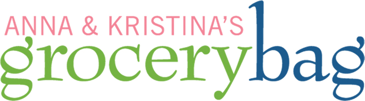 Anna & Kristina's Grocery Bag. This is the logobox for the television cooking/infotainment program, Anna & Kristina's Grocery Bag on the W Network and OWN: The Oprah Winfrey Network.